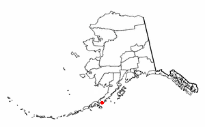 Adapted from Wikipedia's AK borough maps by Seth Ilys.